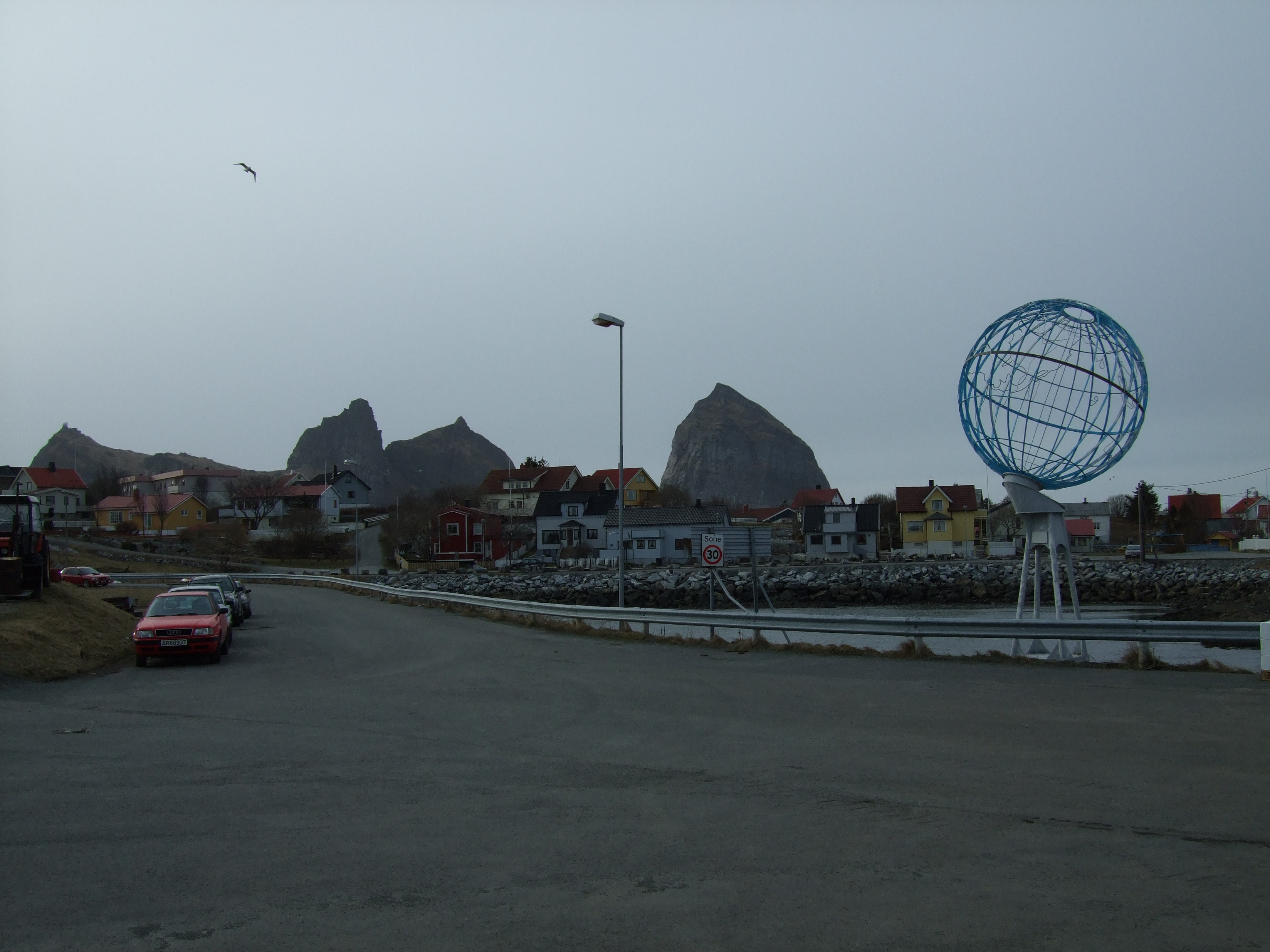 From the ferrylanding at Husøy, Træna, Norway